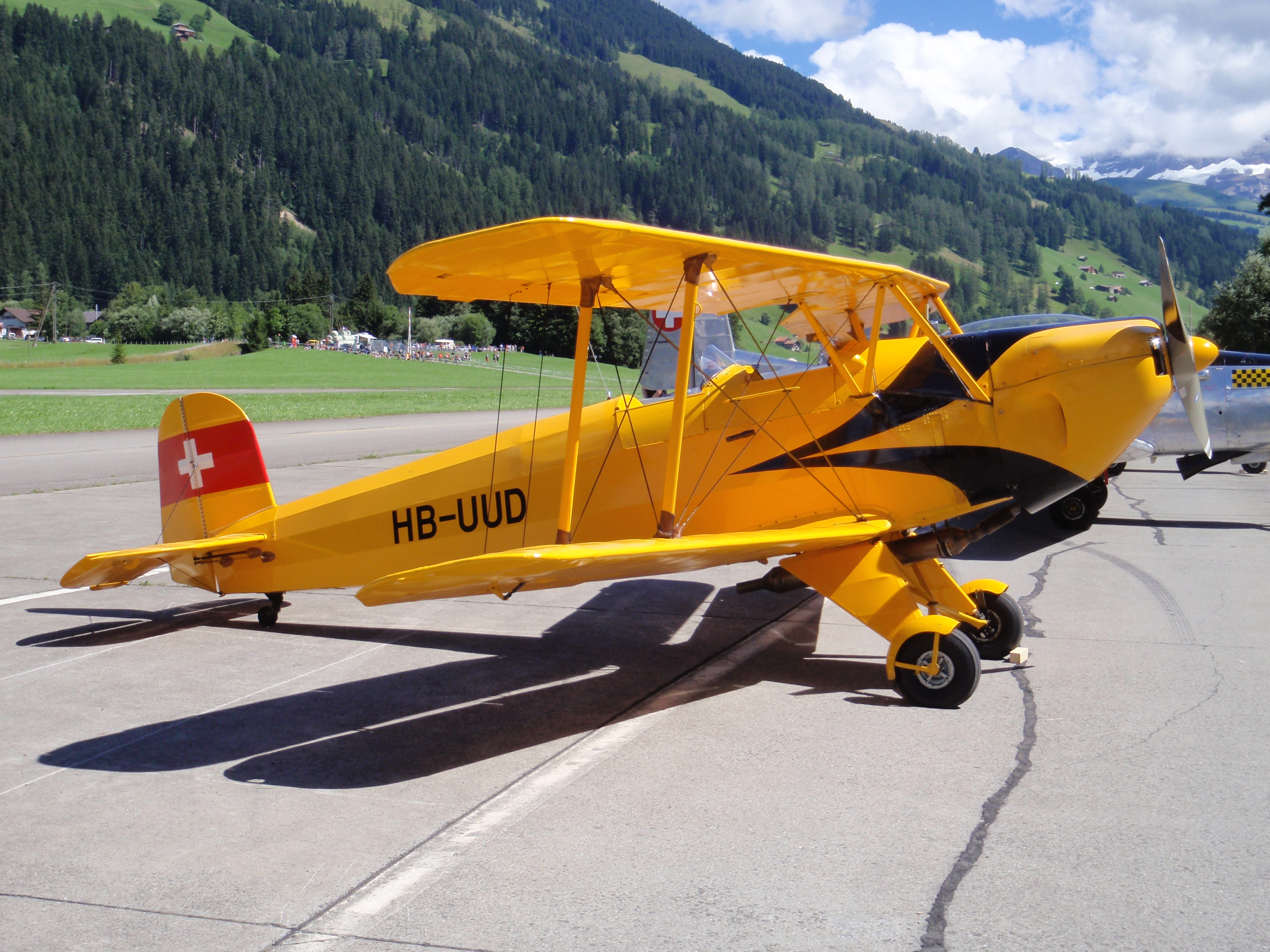 Bücker Bü 131 Jungmann HB-UUD of Bücker Fan Club, in St Stephan, Canton Berna, Switzerland. Engine Lycoming O-290-D2B